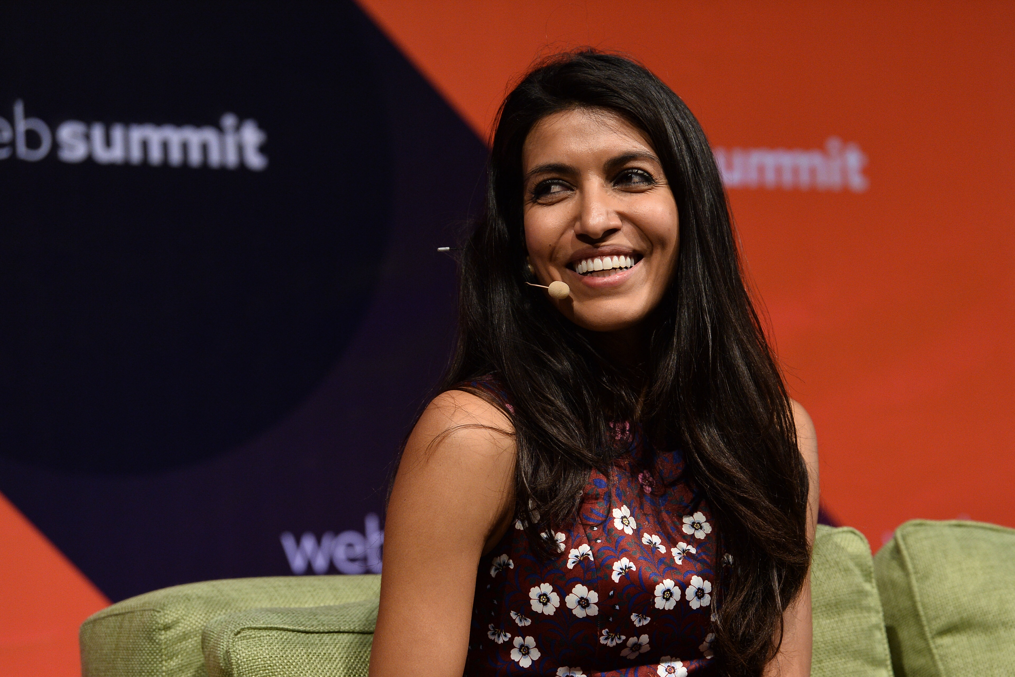 9 November 2017; Leila Janah, Founder and CEO, Samasource and LXMI, on the Future Societies Stage during day three of Web Summit 2017 at Altice Arena in Lisbon. Photo by Diarmuid Greene/Web Summit via Sportsfile